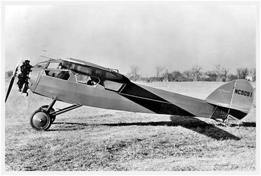 Cessna modelo A